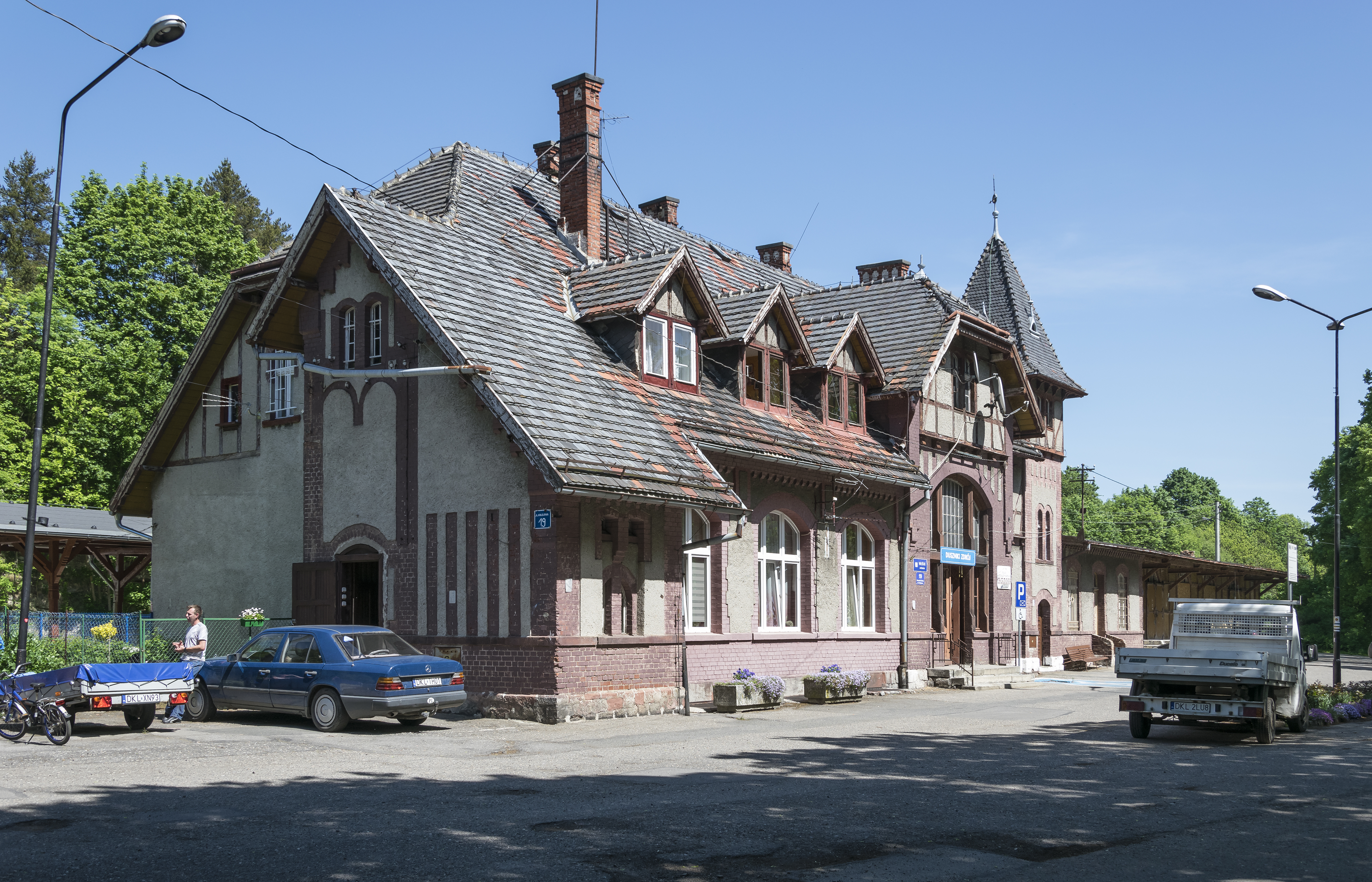 Duszniki Zdrój train station